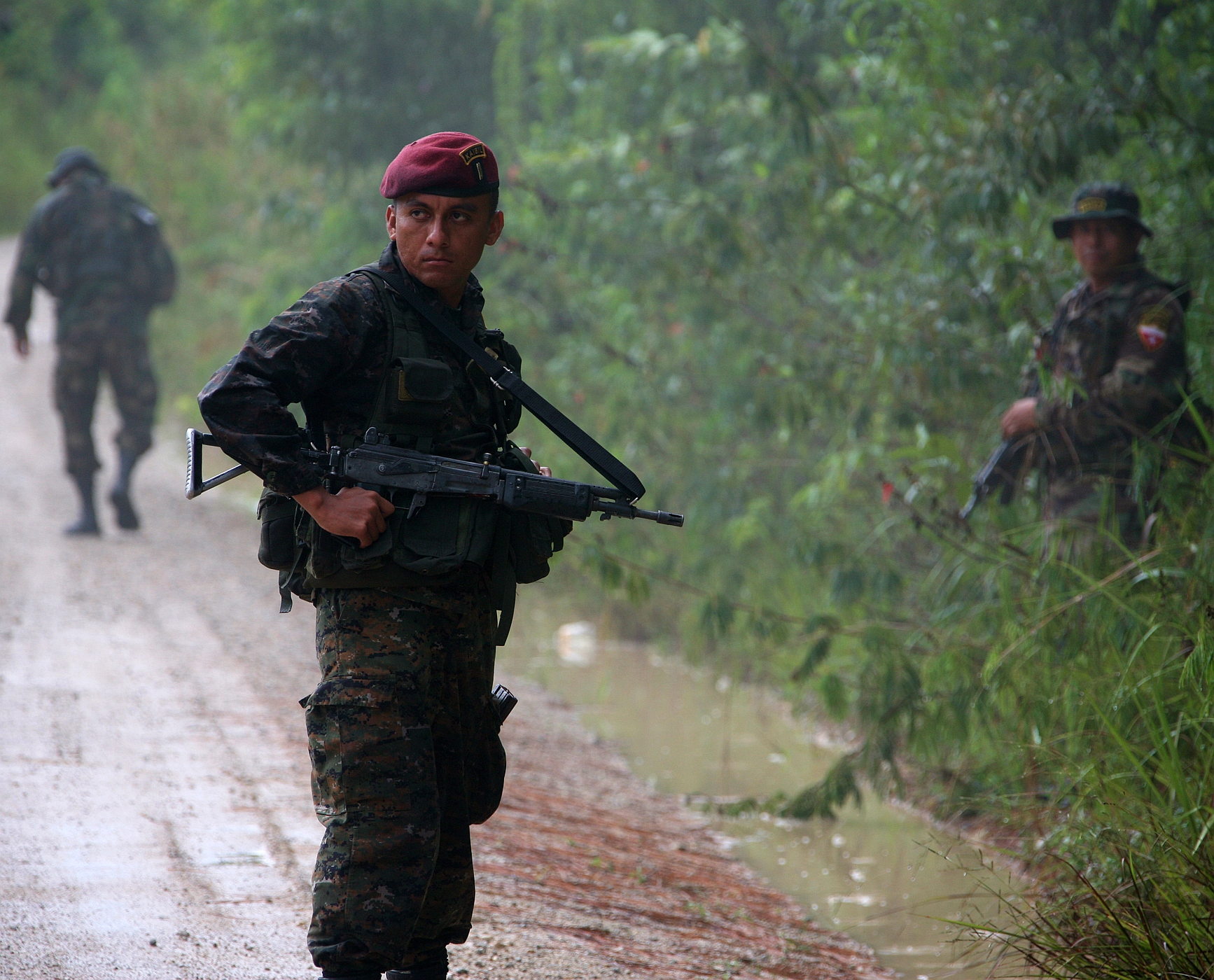 Guatemalan Army Special Forces soldiers or "Kaibiles" prepare to set up an ambush exercise for U.S. Marines at Poptun Training Camp in Poptun, Guatemala, Sept. 12. Ambushing was part of a larger training package created by the Kaibil soldiers to give Marines of Special-Purpose Marine Air-Ground Task Force Continuing Promise 2010 a sense of how the elite Guatemalan Special Forces soldiers train on a daily basis.